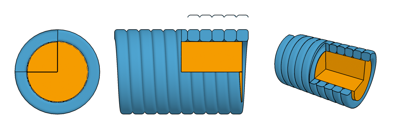 Diagram of flatwound strings for music instruments